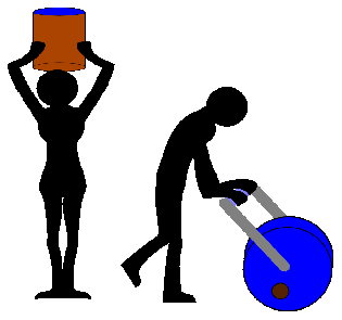 Author/Uploader: Jafet Usage: Rough art put together in half an afternoon. Illustrates the hippo water roller using stick figures.